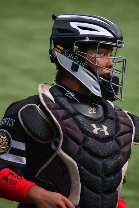 Ayatsugu Yamashita, chatcer of the Fukuoka SoftBank Hawks.